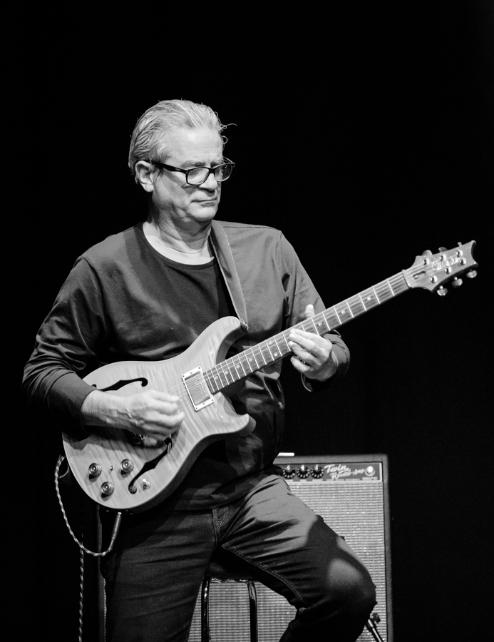 Ricardo Silveira in a concert with João Bosco Quartet at Cosmopolite. The concert took place on 11. May 2019 in Oslo. Lineup:Joao Bosco (guitar and vocal)Ricardo Silveira (guitar)Kiko Freitas (drums)Guto Wirtti (bass guitar)